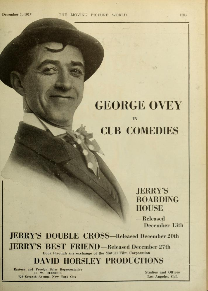 Advertisement in Moving Picture World